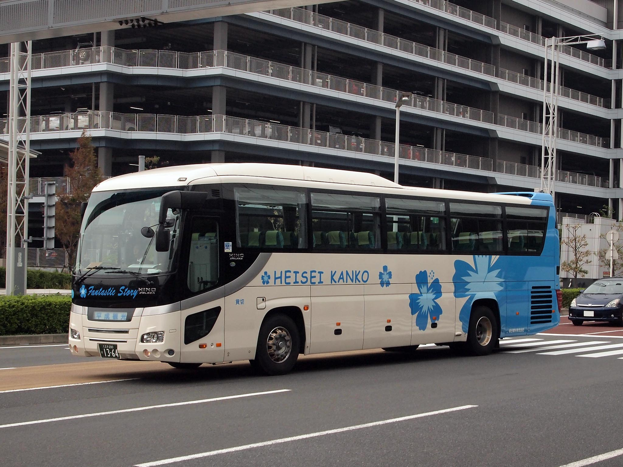 Fleet of Sogo Kanko, group of Heisei Enterprise. Model: Hino Selega RU1ESAA License plate: TKH200 KA1364 Place:Tokyo International Airport